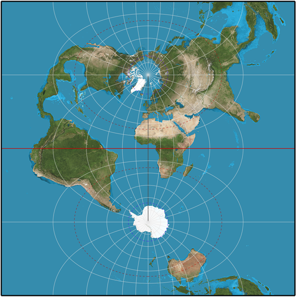 The transverse Mercator projection on the sphere. It is truncated where x equals (plus/minus) pi (in units of earth radius). Produced using Geocart from [1]